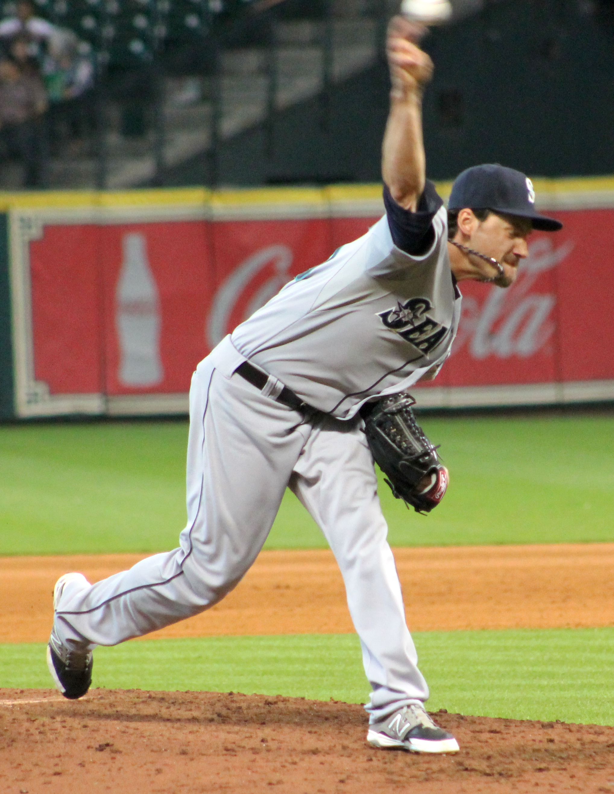 Major League Baseball pitcher Danny Farquhar at Minute Maid Park in July 2014.